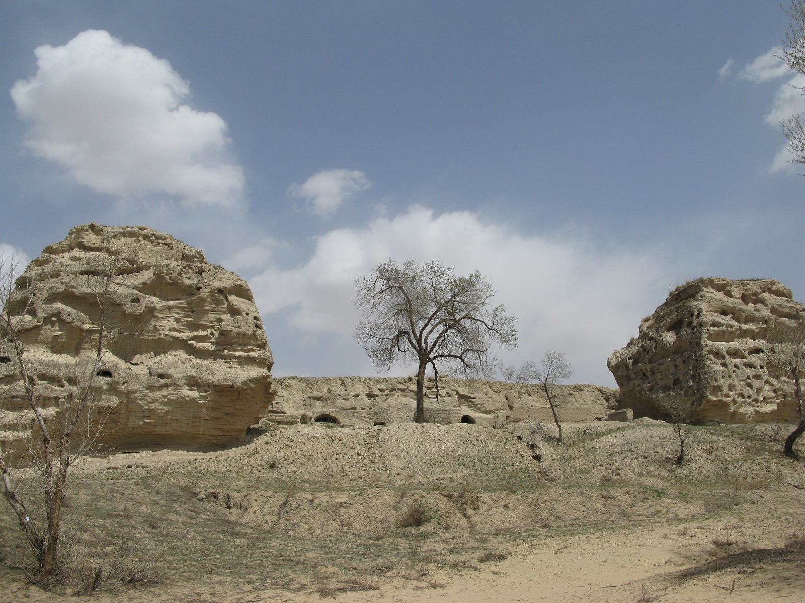 Ancient city buried in the desert / 夏国的城市，被沙漠覆盖了